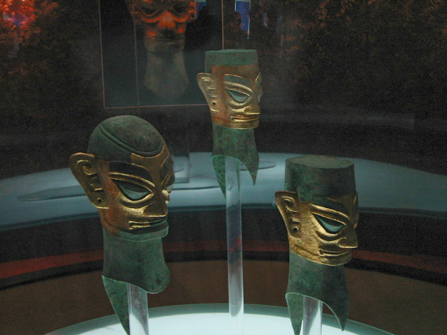 Took these pictures on a trip in 2004 at the Sanxingdui Museum. This is in my ancestral home province. (Yang - 2004)